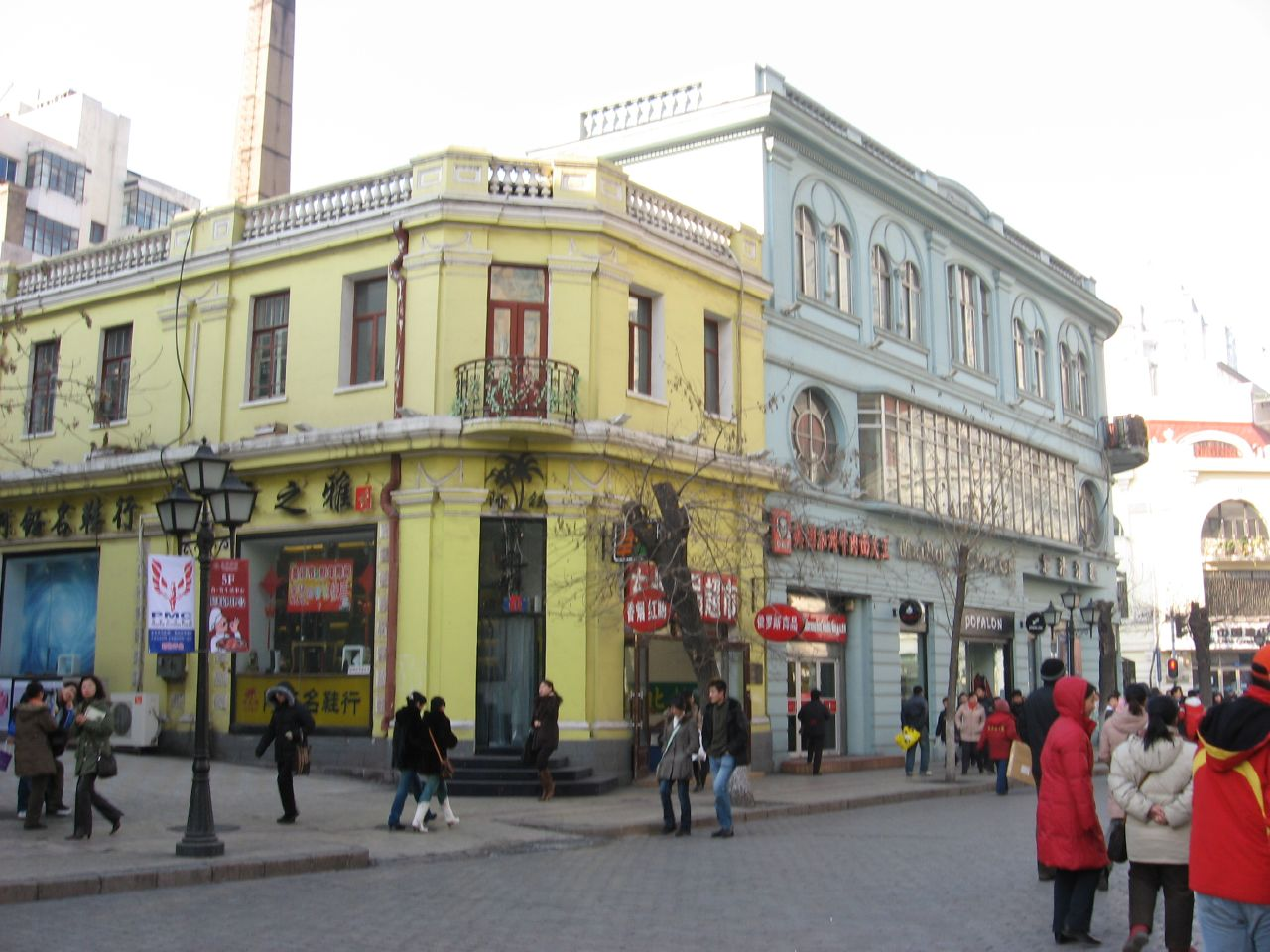 Wandering around the streets, Harbin, Heilongjiang, China